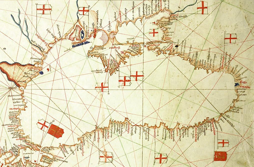 The east of 1489 Portolan Chart. From the Black Sea at the top to the Red Sea at the bottom.